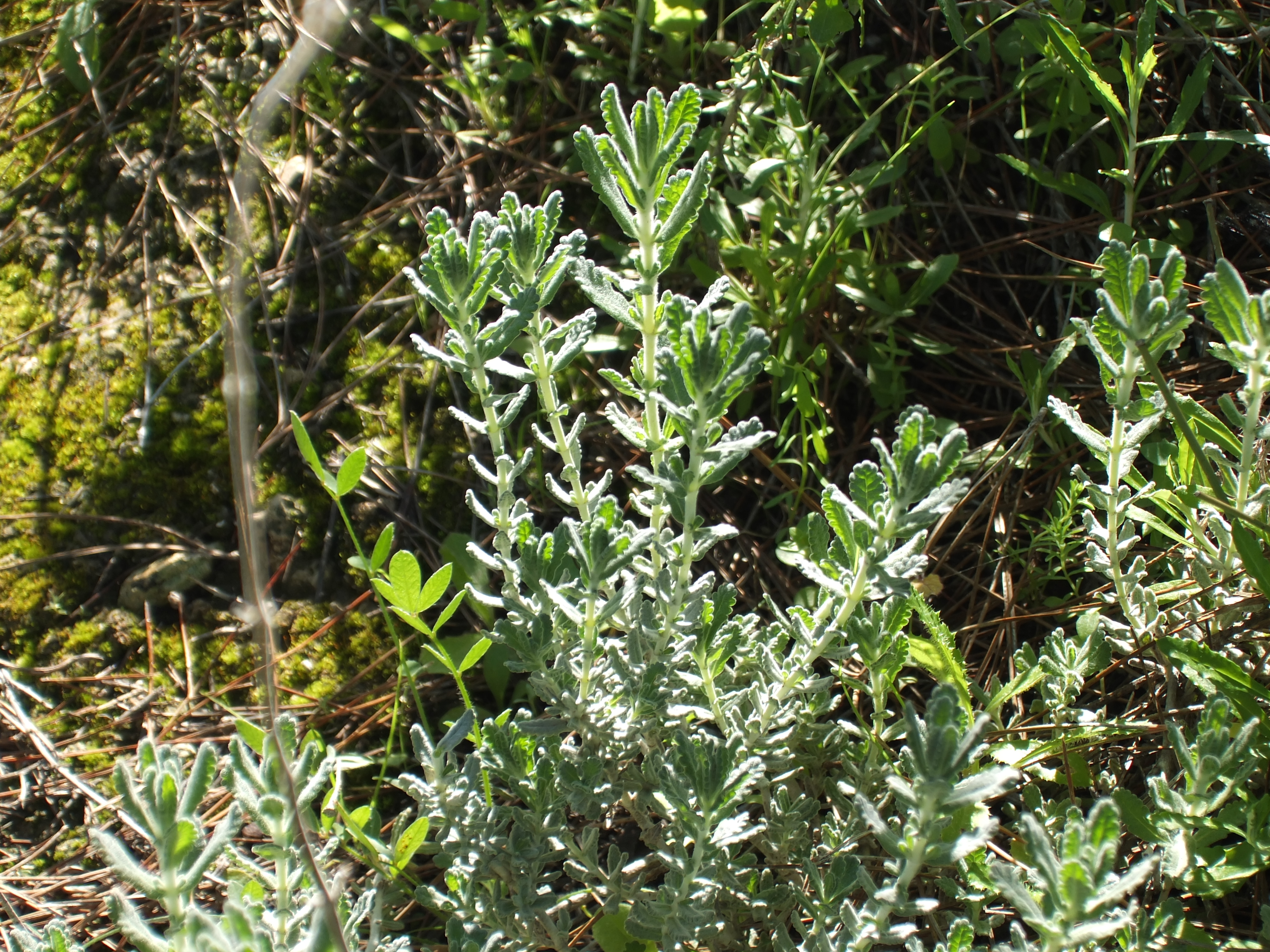 Cat-thyme germander (Teucrium capitatum), an aromatic herb, in Israel